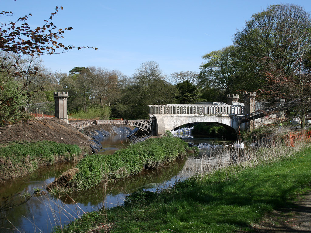 Tournament Bridge at Eglinton Park in a state of partial dismantlement during restoration in 2008.